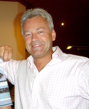 Alan James Carter Duncan